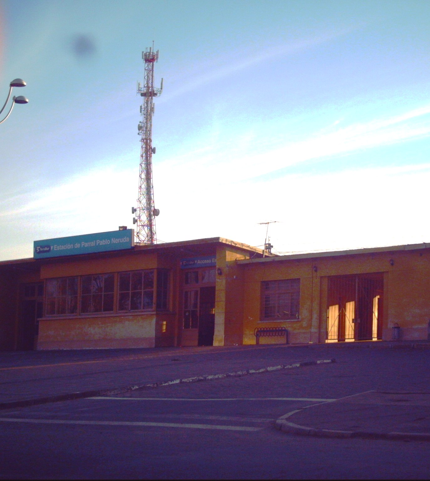 Train station of Parral (Chile)